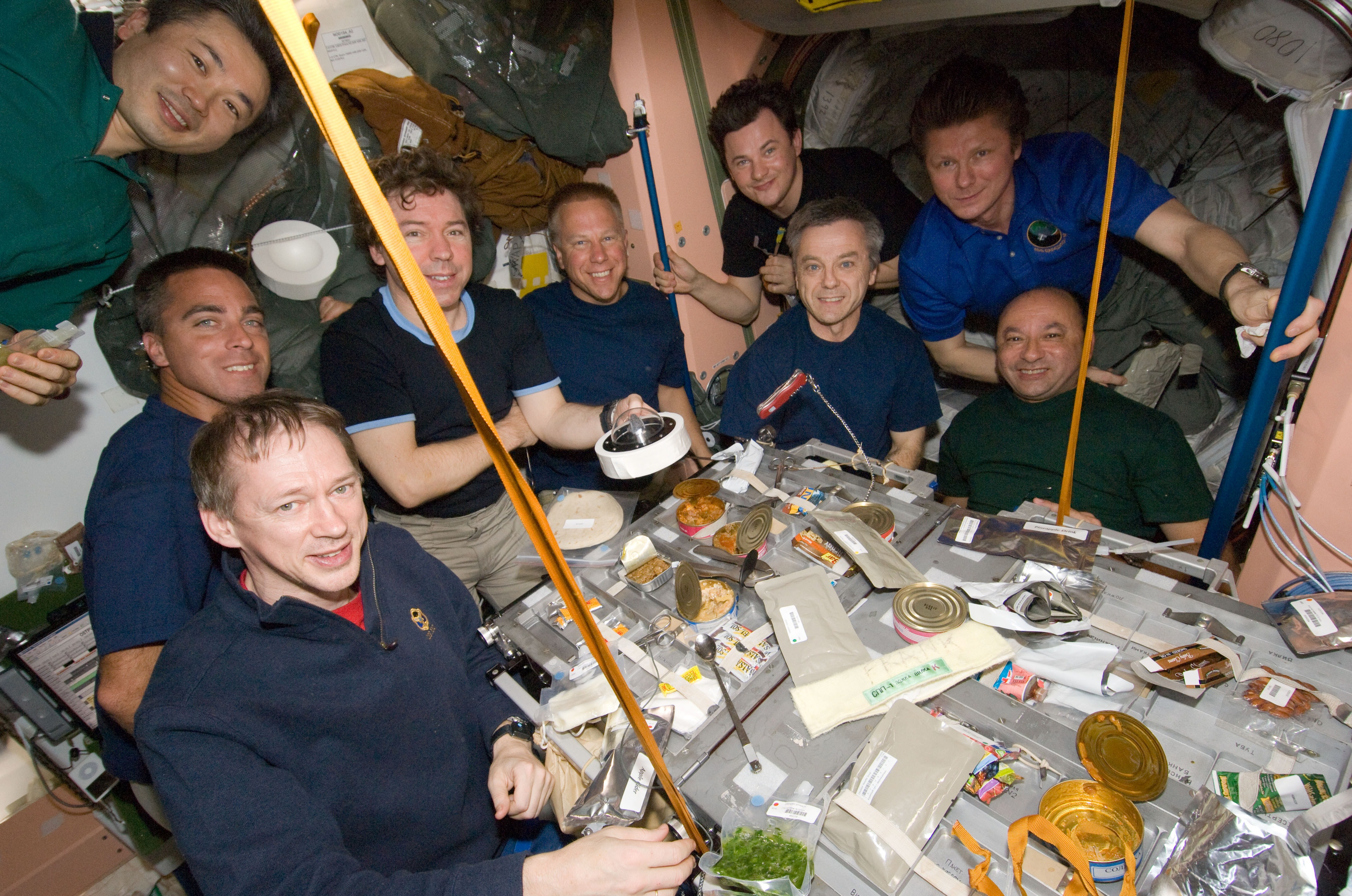 Nine of a total aggregation of 13 astronauts and cosmonauts are pictured at meal time aboard the International Space Station. Seated at the table, clockwise from bottom left, are European Space Agency astronaut Frank De Winne, astronaut Christopher Cassidy, along with astronauts Mike Barratt and Tim Kopra and Canadian Space Agency astronaut Robert Thirsk and astronaut Mark Polansky. From left to right at top are Japanese Aerospace Exploration Agency astronaut Koichi Wakata and Russian Federal Space Agency cosmonauts Roman Romanenko and Gennady Padalka. Not pictured are astronauts Tom Marshburn, Dave Wolf and Doug Hurley, plus Canadian Space Agency astronaut Julie Payette. Seven astronauts left Kennedy Space Center one week ago aboard the Space Shuttle Endeavour to join up with the six Expedition 20 crew members on the orbital outpost to continue work on it. The space fliers have completed two of five scheduled spacewalks up to this point.